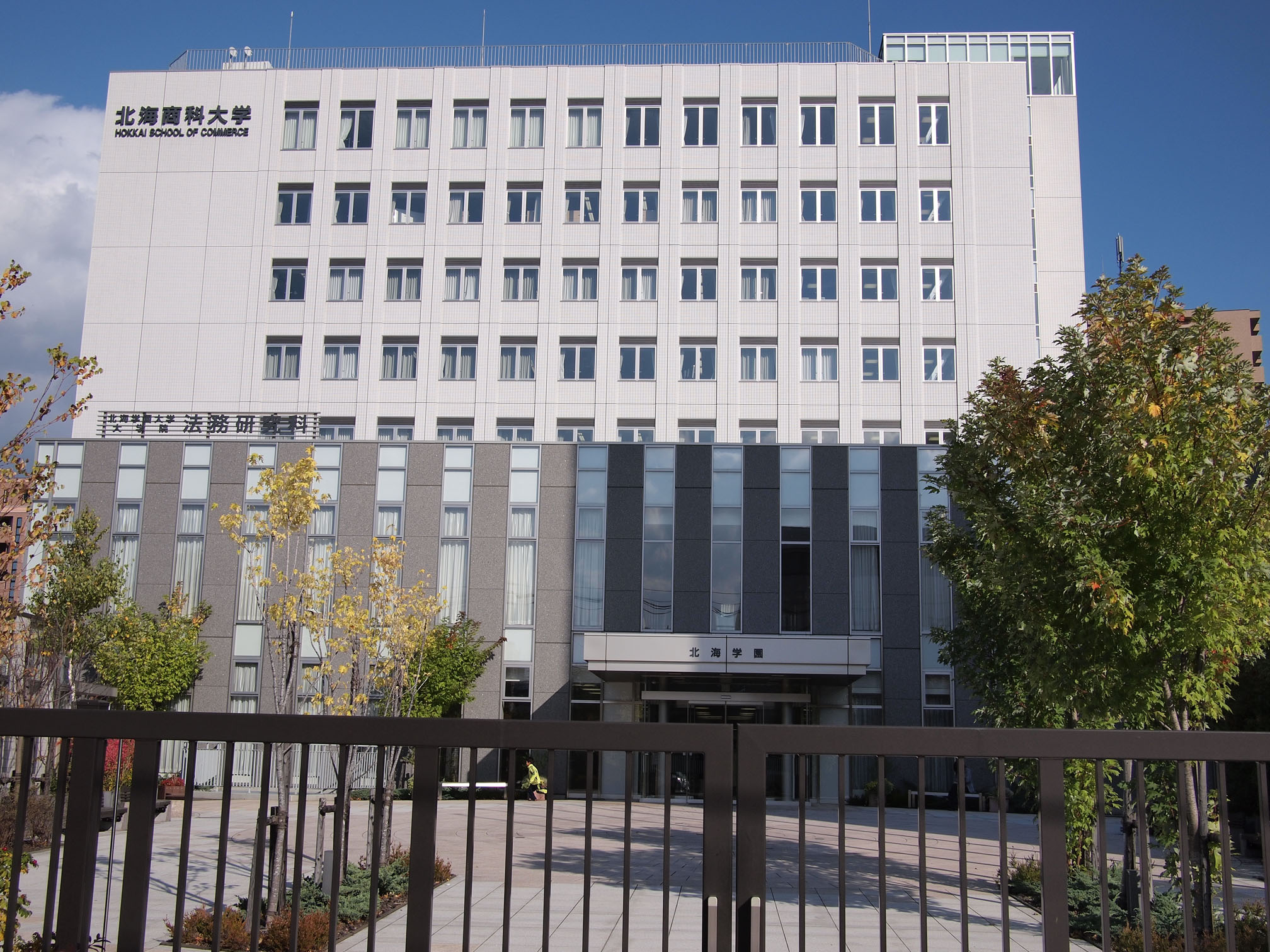 Hokkai School of Commerce, Sapporo, Hokkaido, Japan